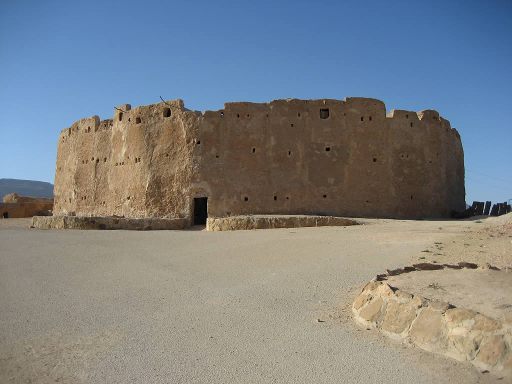 Gasr Al-Hajj fortified granary, located on the Tripoli-'Aziziya-Al Jawf route in Libya about 130 km southwest of Tripoli. Built in the 13th century AD by Abdallah Abu Jatla.